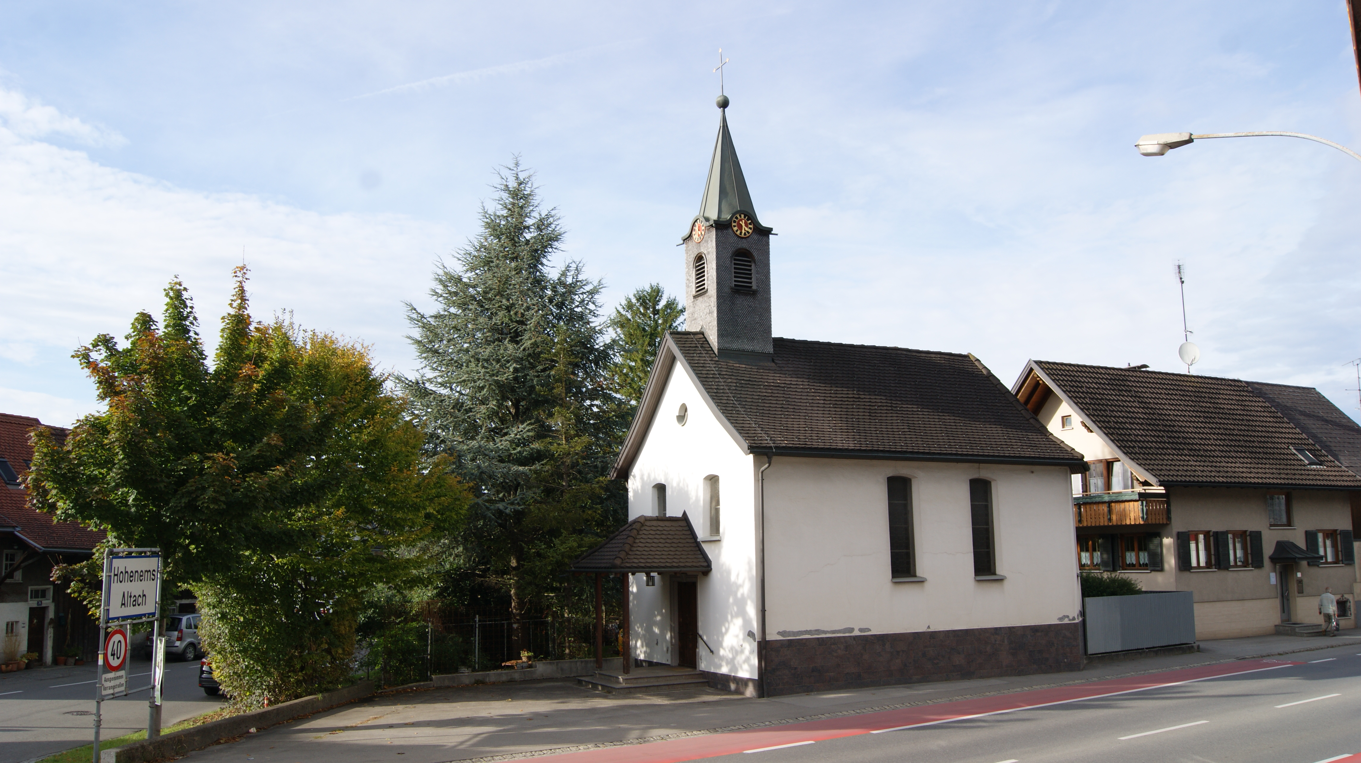 Chapel of St. John Nepomuk in "Bauern", in Hohenems. View from the southeast.